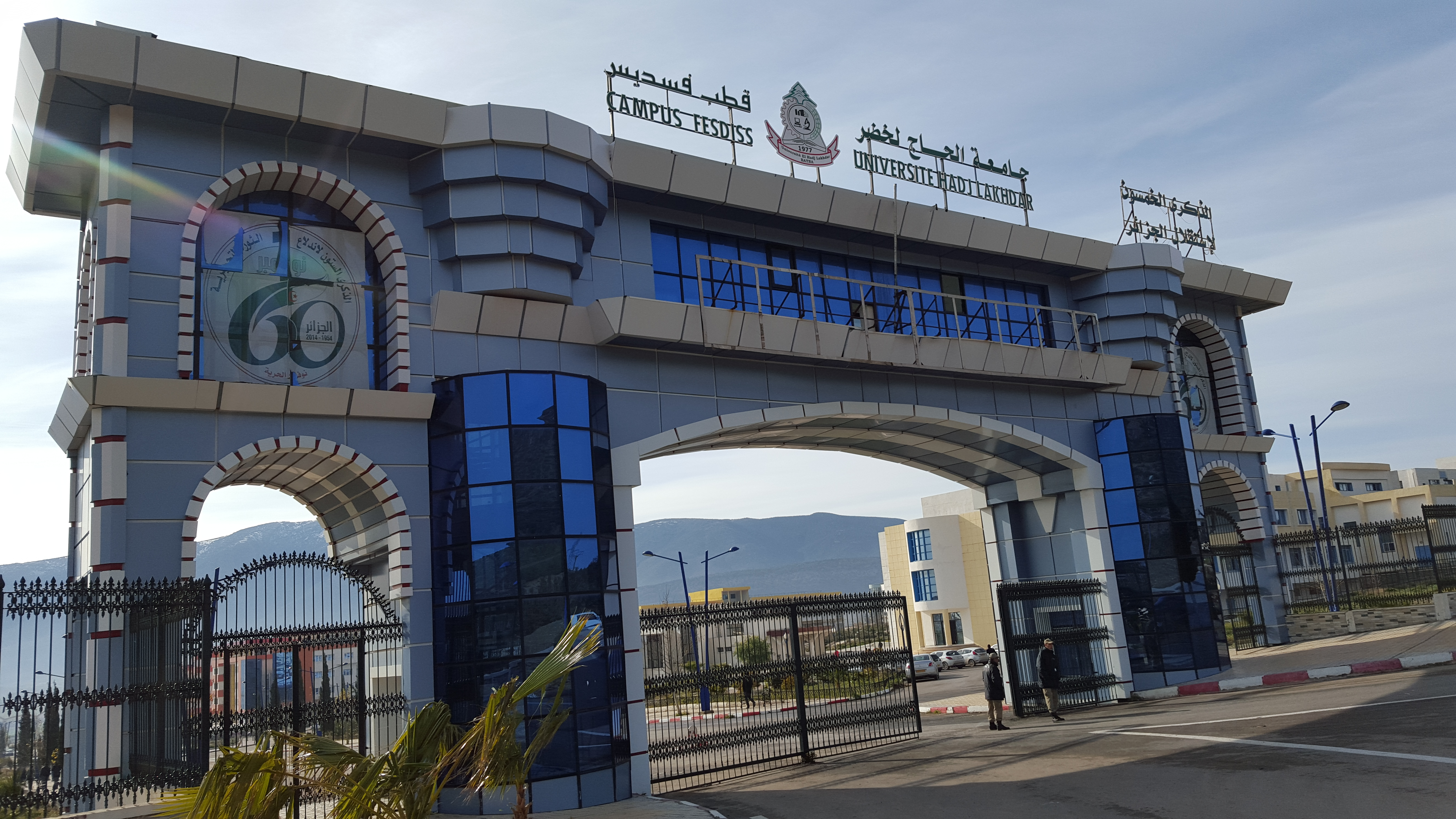 University of Batna 2 main entrance in Fesdis, Batna, Algeria